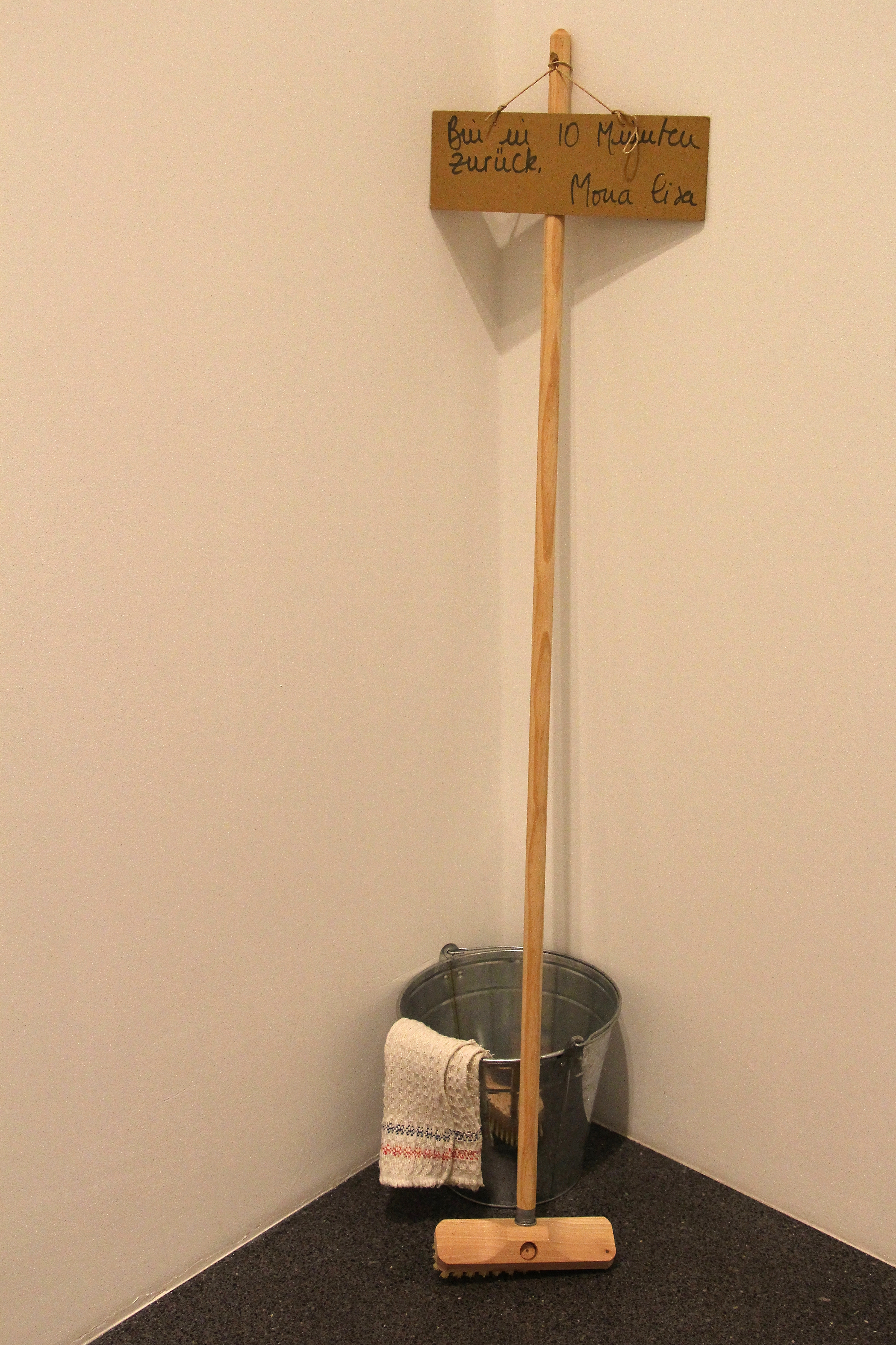 Westpark. Leonie-Reygers-Terrasse The Museum Ostwall is a museum of modern and contemporary art. It was founded in the late 1940s, and has been located in the Dortmund U-Tower since 2010. La Joconde est dans les escaliers Robert Filliou 1969